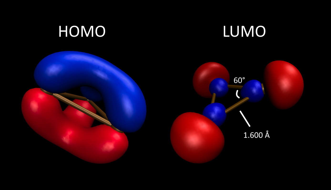 These are the HOMO and LUMO of B3+, calculated at the CCSD(T)/cc‐pVTZ level of theory.